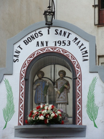 Saints Bonosus and Maximianus, image in a street at Blanes, Girona, Spain.